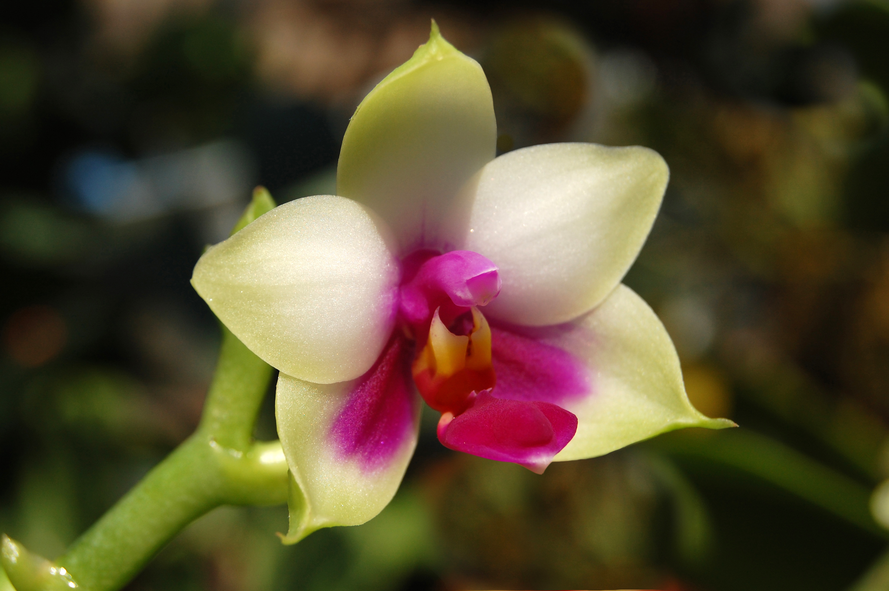 Phalaenopsis bellina.